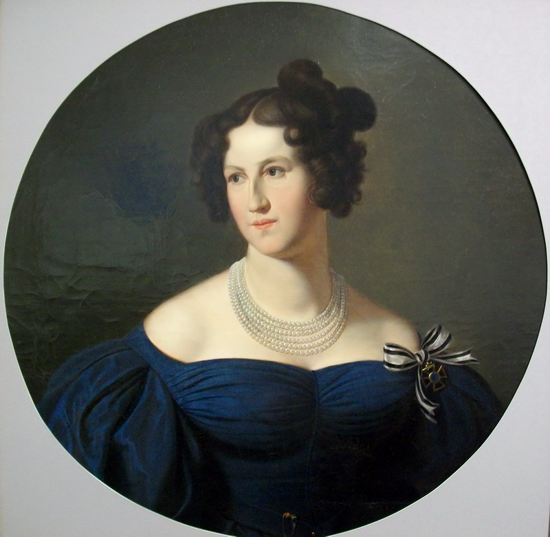 Princess Maria Anna of Hesse-Homburg (1785-1846), wife of Friedrich Wilhelm of Prussia